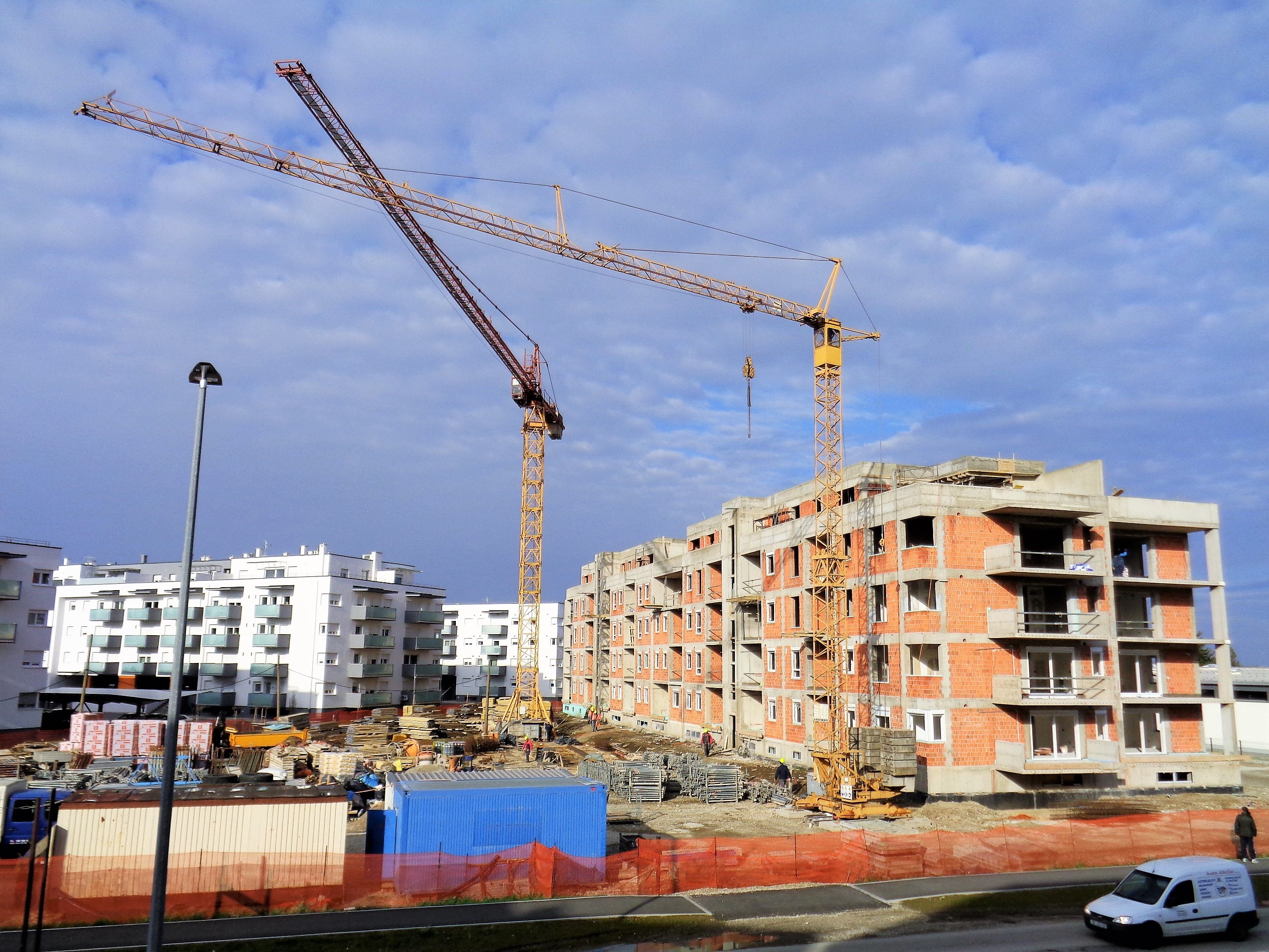 Cranes at a construction of a building (Čakovec, Croatia)